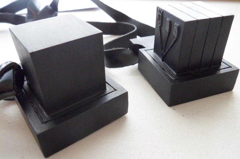 A set of gassos (lit. "thick", made from cow hide rather than sheep hide), single leather piece, tefillin in the Ashkanazi tradition